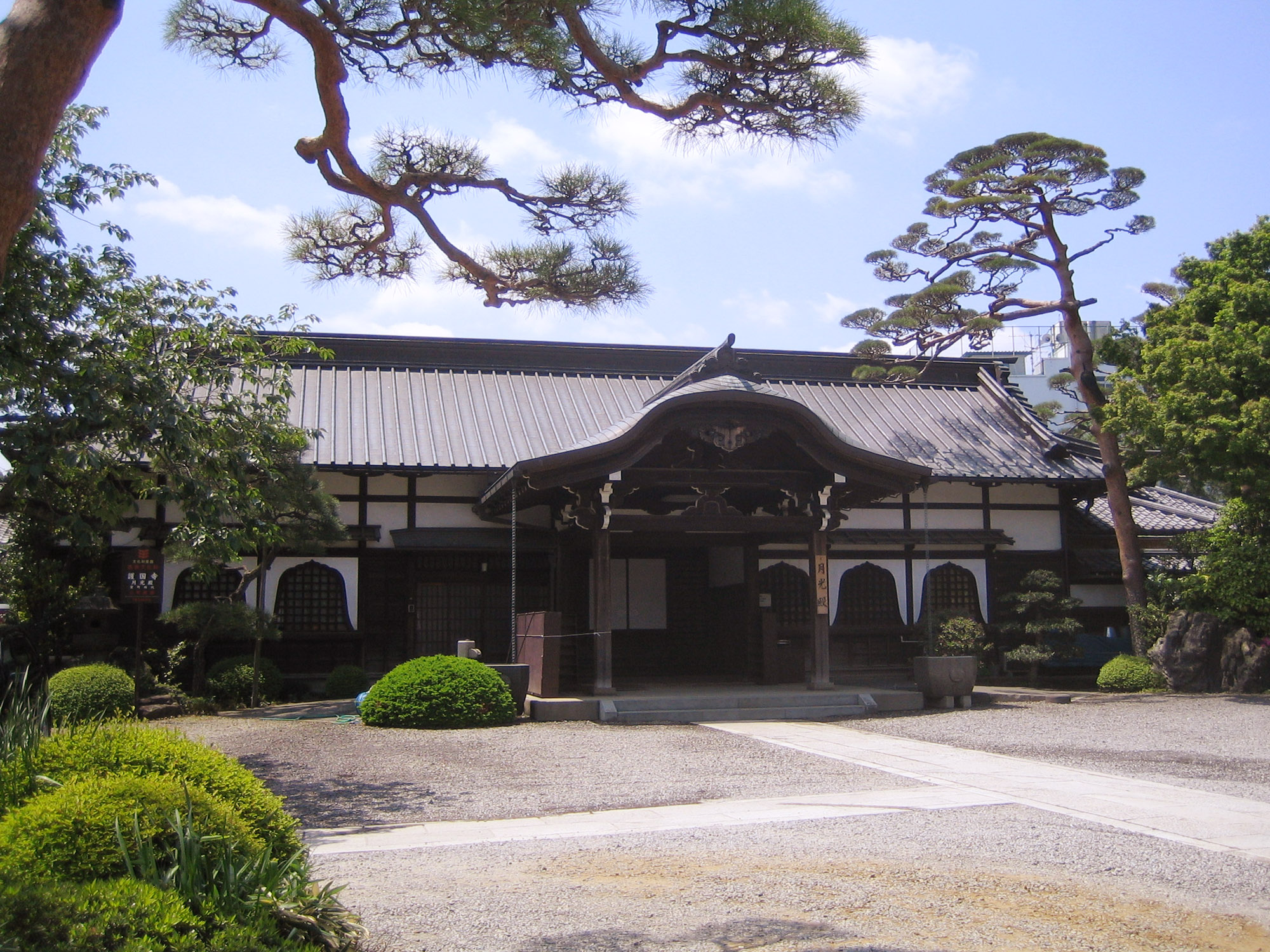 Gekkōden of Gokoku-ji Temple in Bunkyo, Tokyo, Japan.